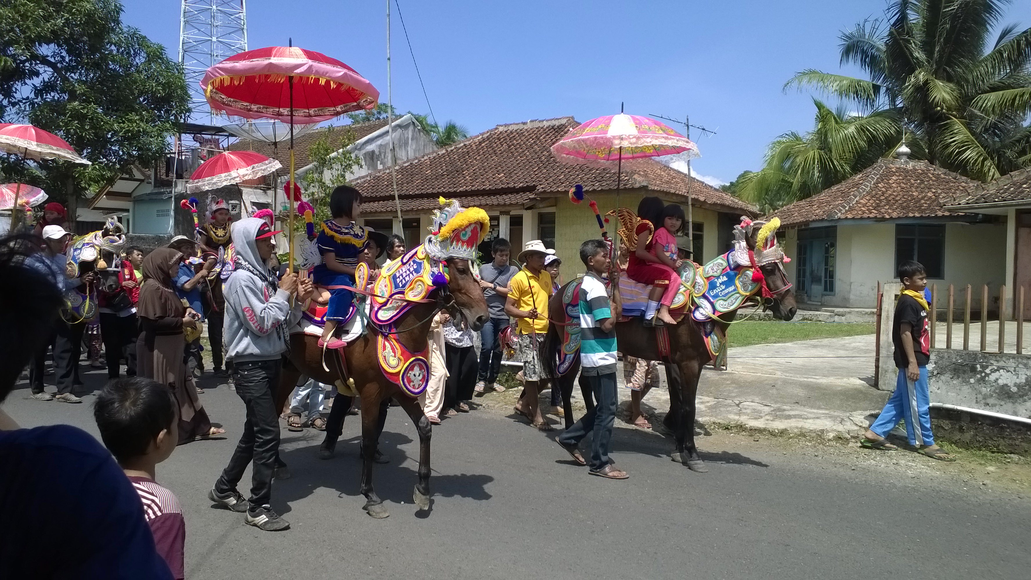 The show of kuda renggong as a part of the circumcision tradition for celebrating and entertaining the circumcised children